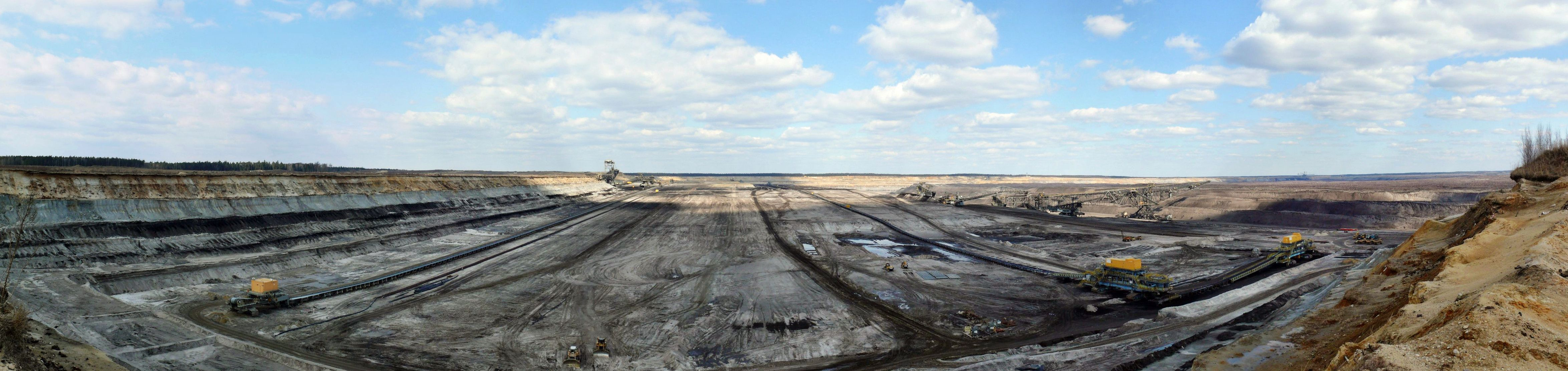 Open cast mining Nochten, near the city of Weißwasser